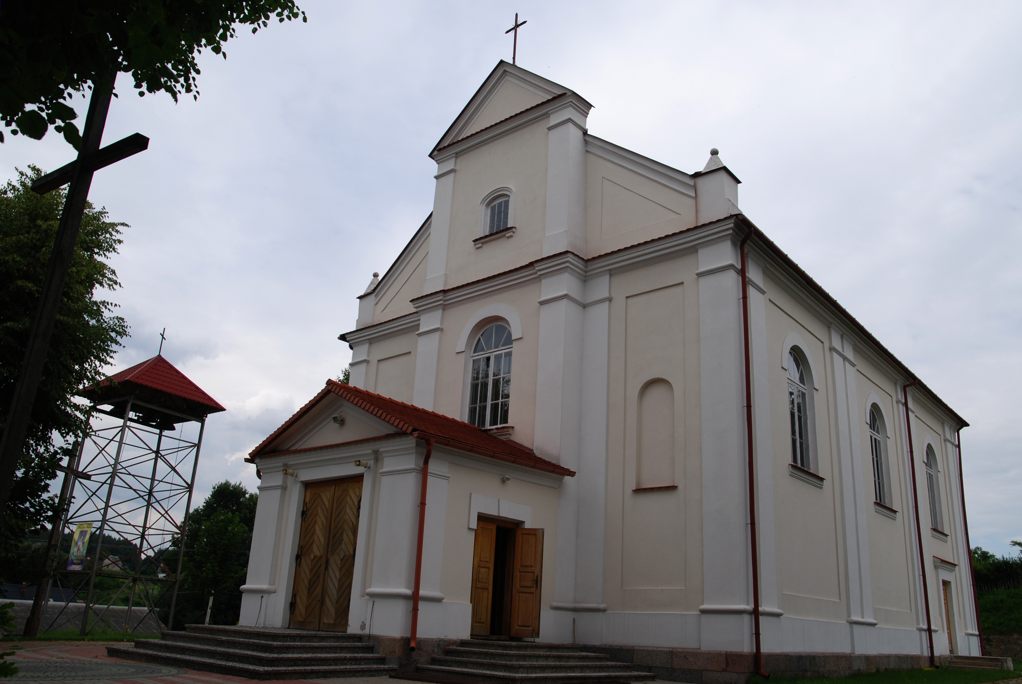 This photo from Podlaskie Voievodeship was taken during Polish Wikiexpedition 2009 set up by Wikimedia Polska Association. The making of this document was supported by Wikimedia Polska. Kosciół pod wezwaniem Przemienienia Panskiego w Mielniku